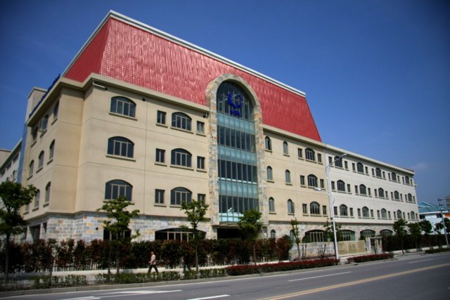 The main building of the Shanghai Community International School, Pudong, Upper School Campus.